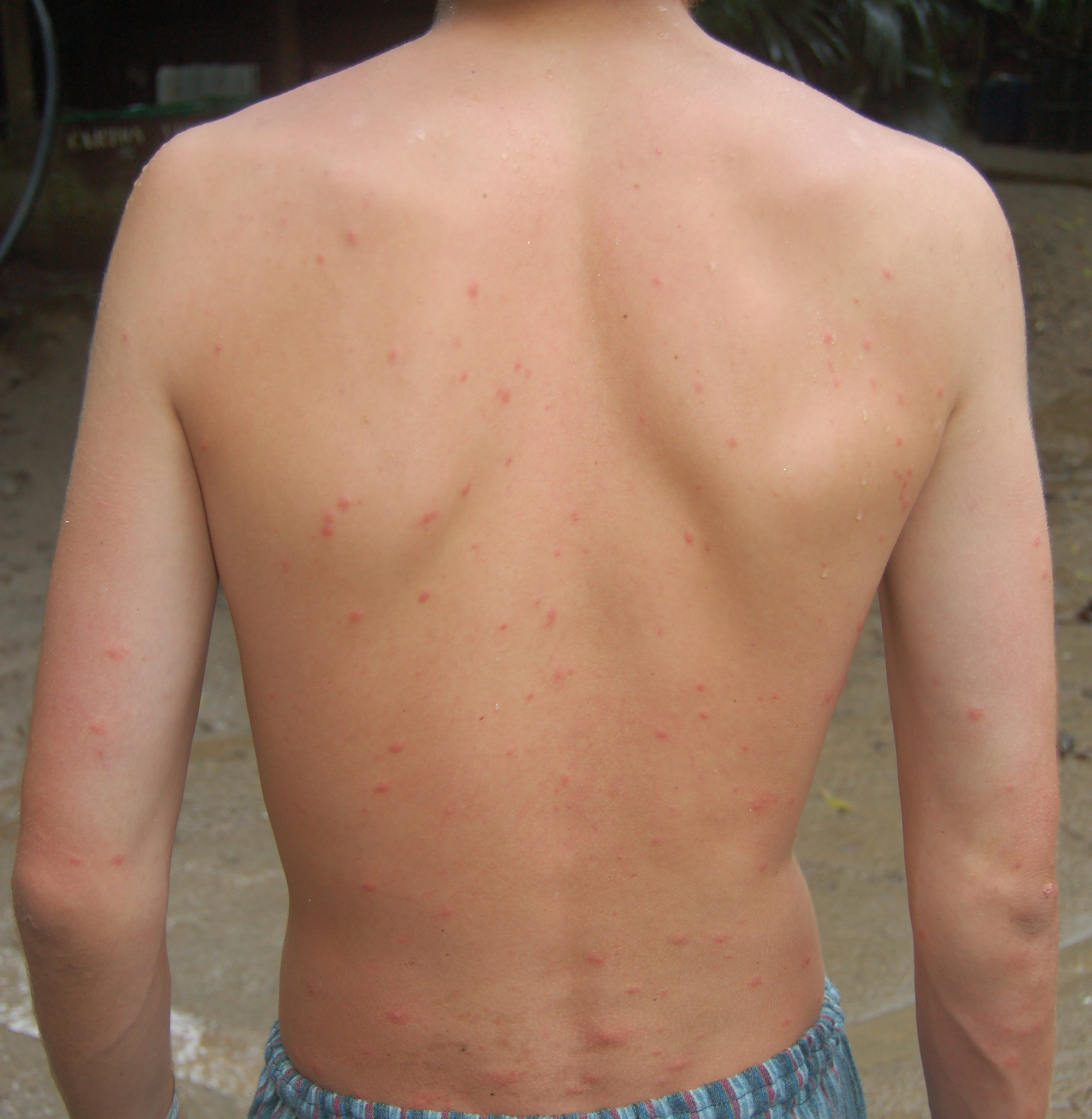 One night in Tayrona National Natural Park resulted in a mosquito-bitten back even though it was protected by t-shirt, bed sheet and hammock.